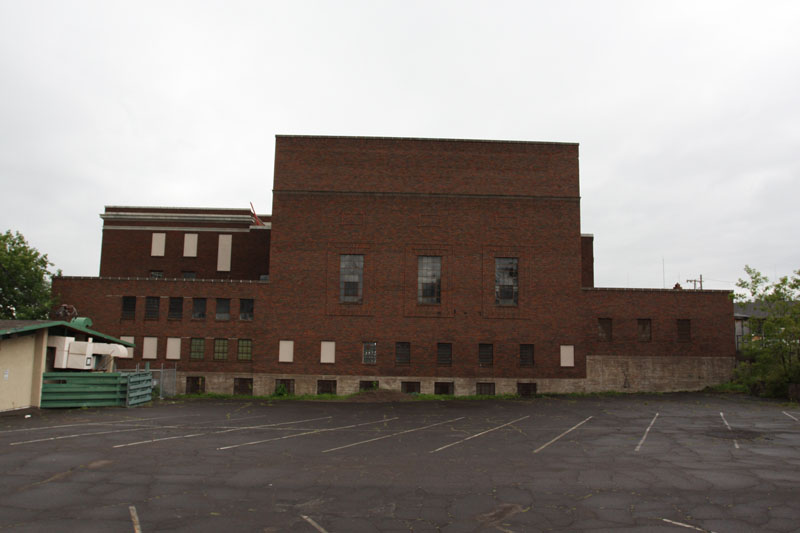 North facade of the 1941 addition to the NRHP-listed Duluth Armory in Duluth, Minnesota.